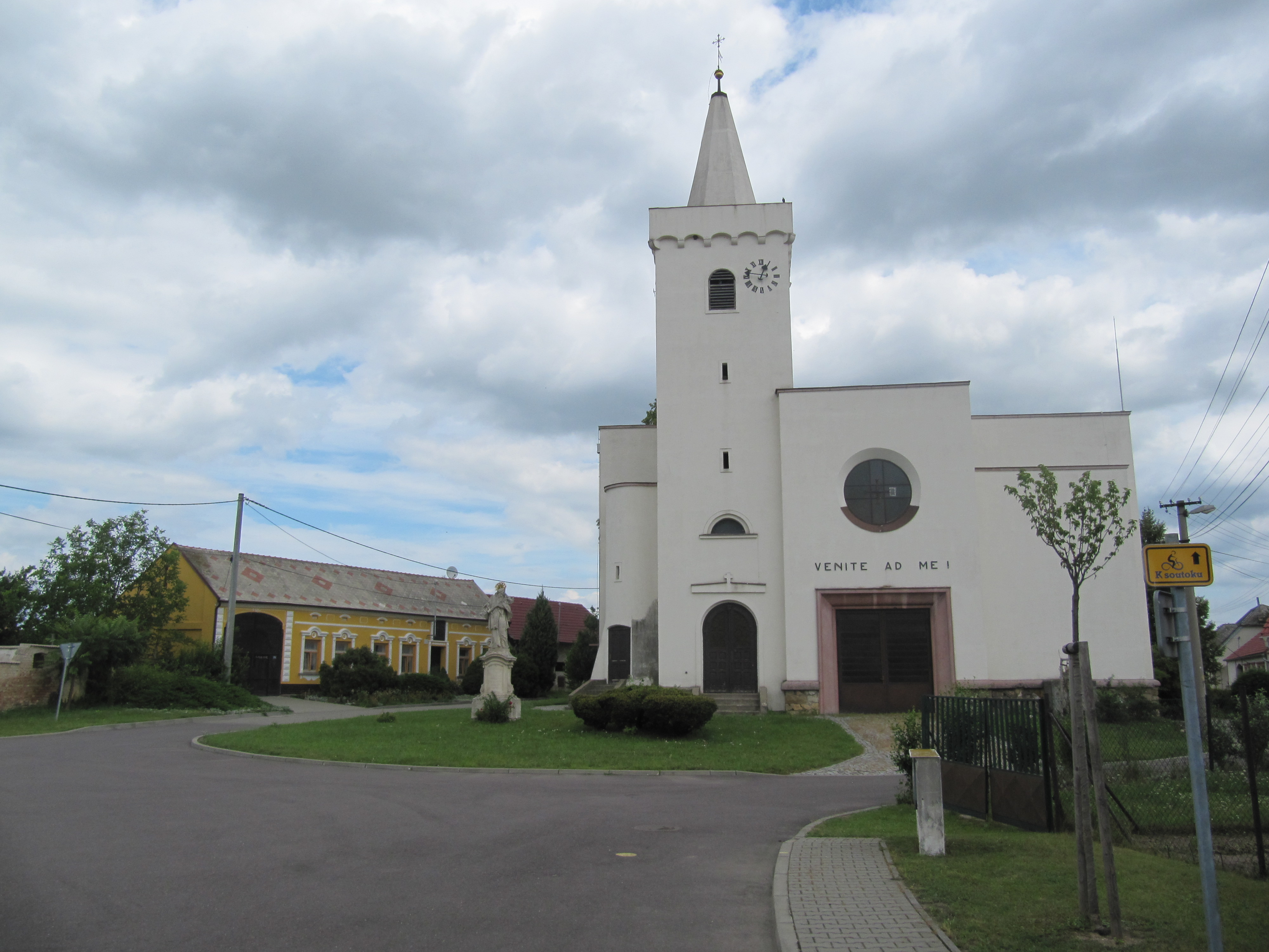 Jevišovka in Břeclav District, Czech Republic. Common. Church of the Holy Kunigunde, original church was rebuilt in the years 1929-1932 in the functionalist style, the Gothic tower (the rest of the original building) and the Baroque statue of St. John of Nepomuk.